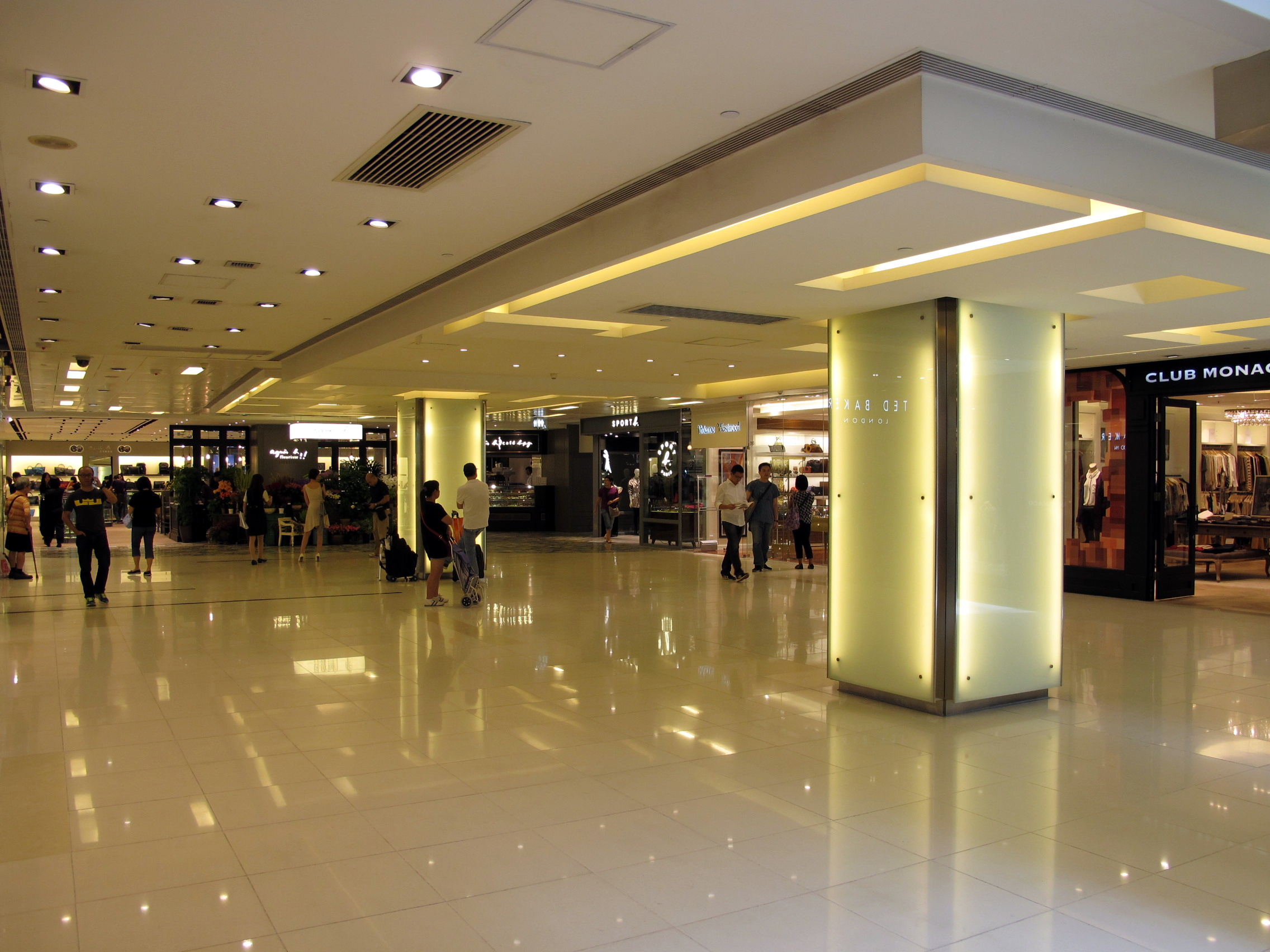 New Town Plaza Phase 1 L3west